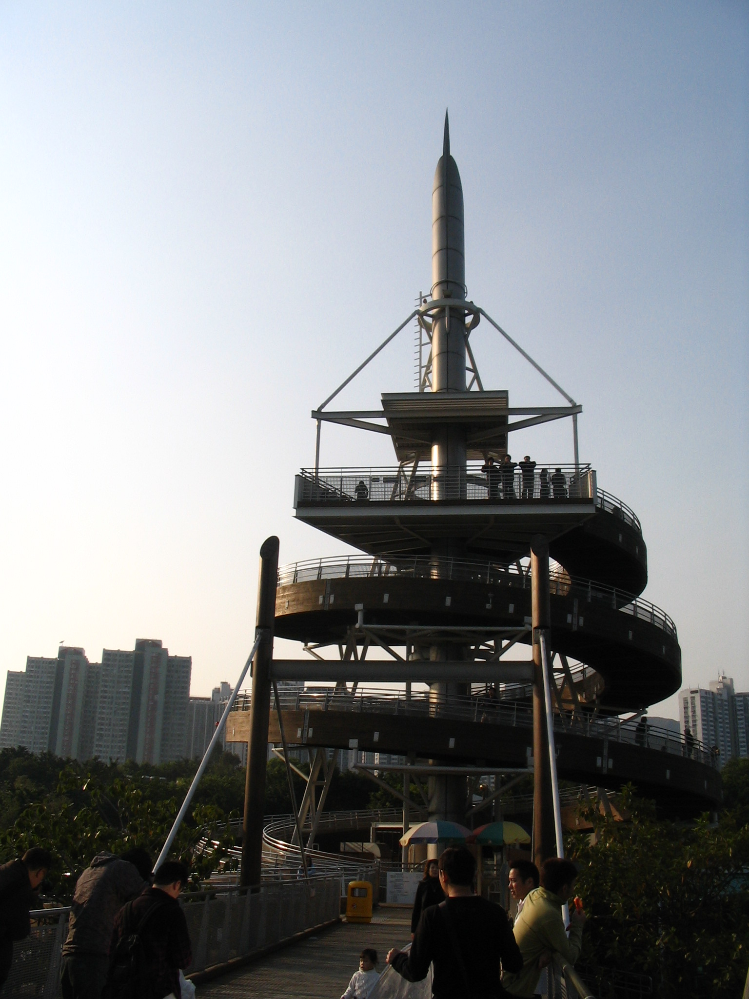 Photo of Lookup Tower